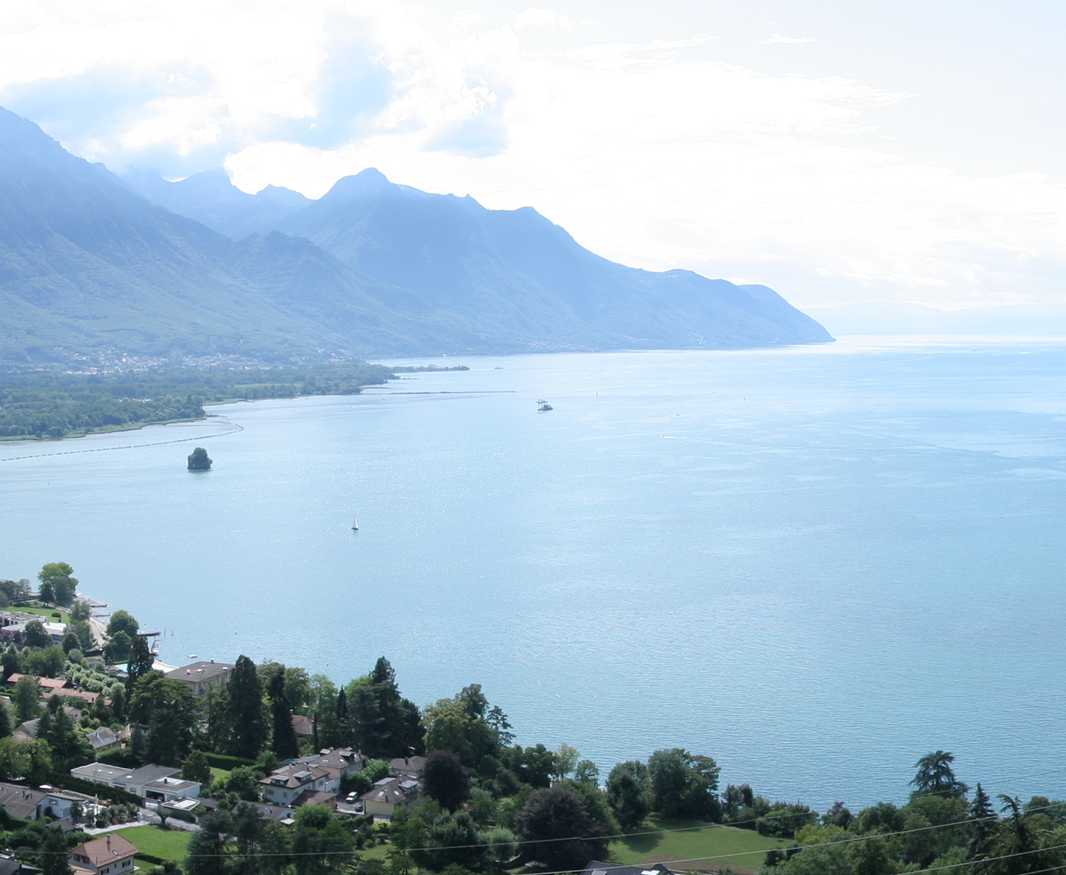 Site of Hôtel Byron, Crop from 200° panorama view of Villeneuve VD, Lake Geneva, Chateau de Chillon and Montreux (from left to right). Made with Hugin by stitching 15 single images.